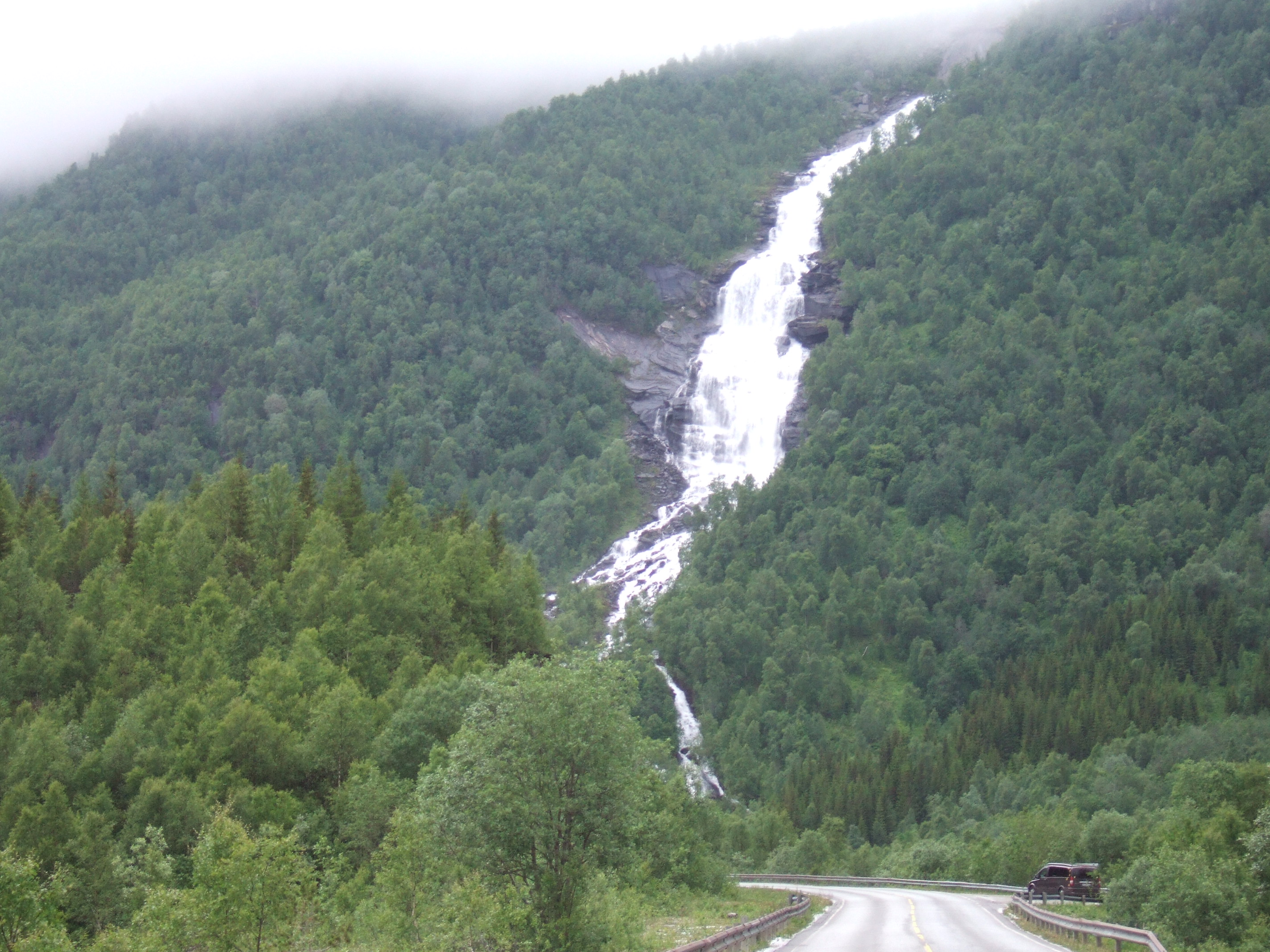 Galbmielva river in Fauske, Nordland, Norway